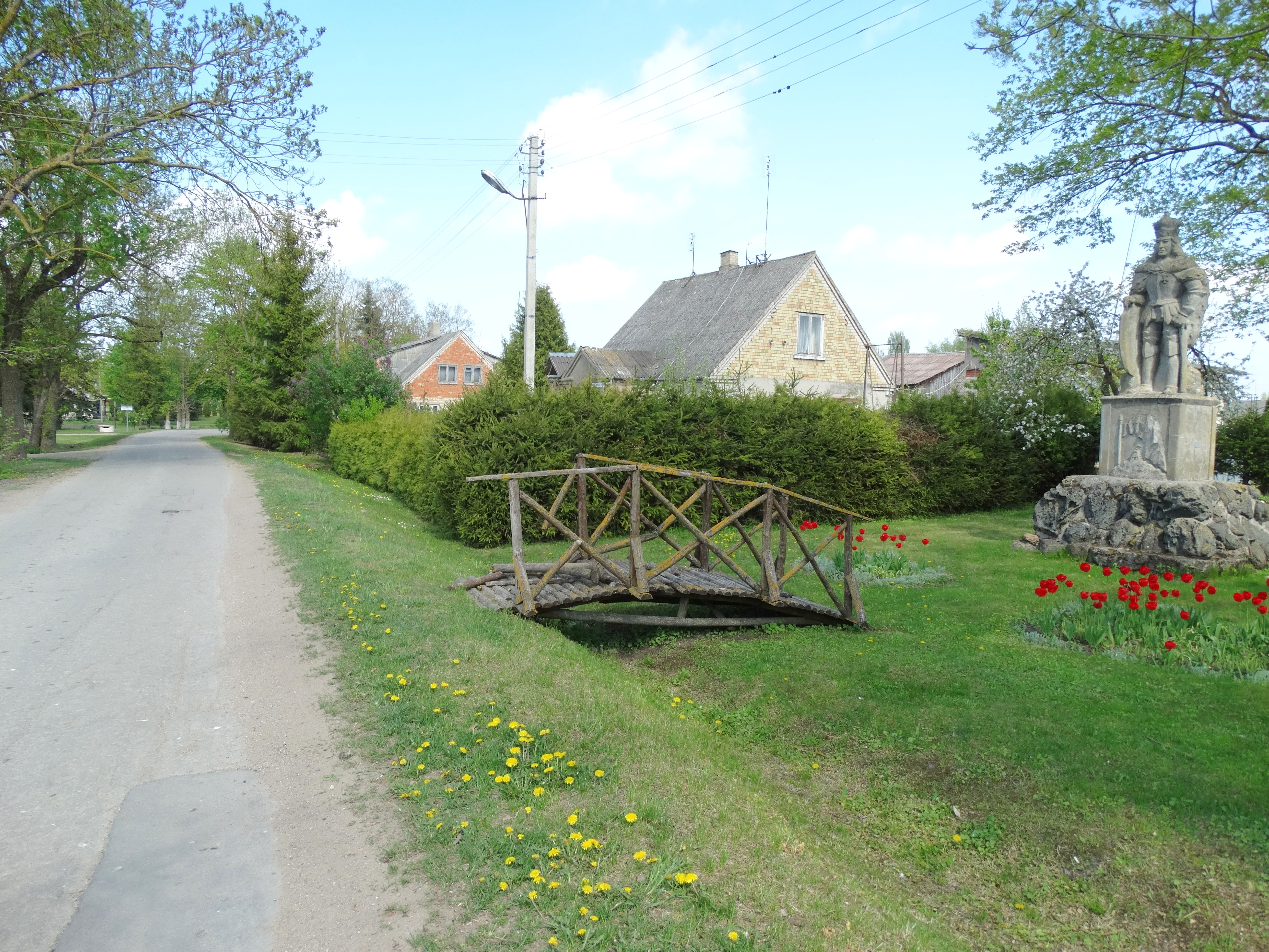 Monument to Vytautas, Bardiškiai, Pakruojis district, Lithuania